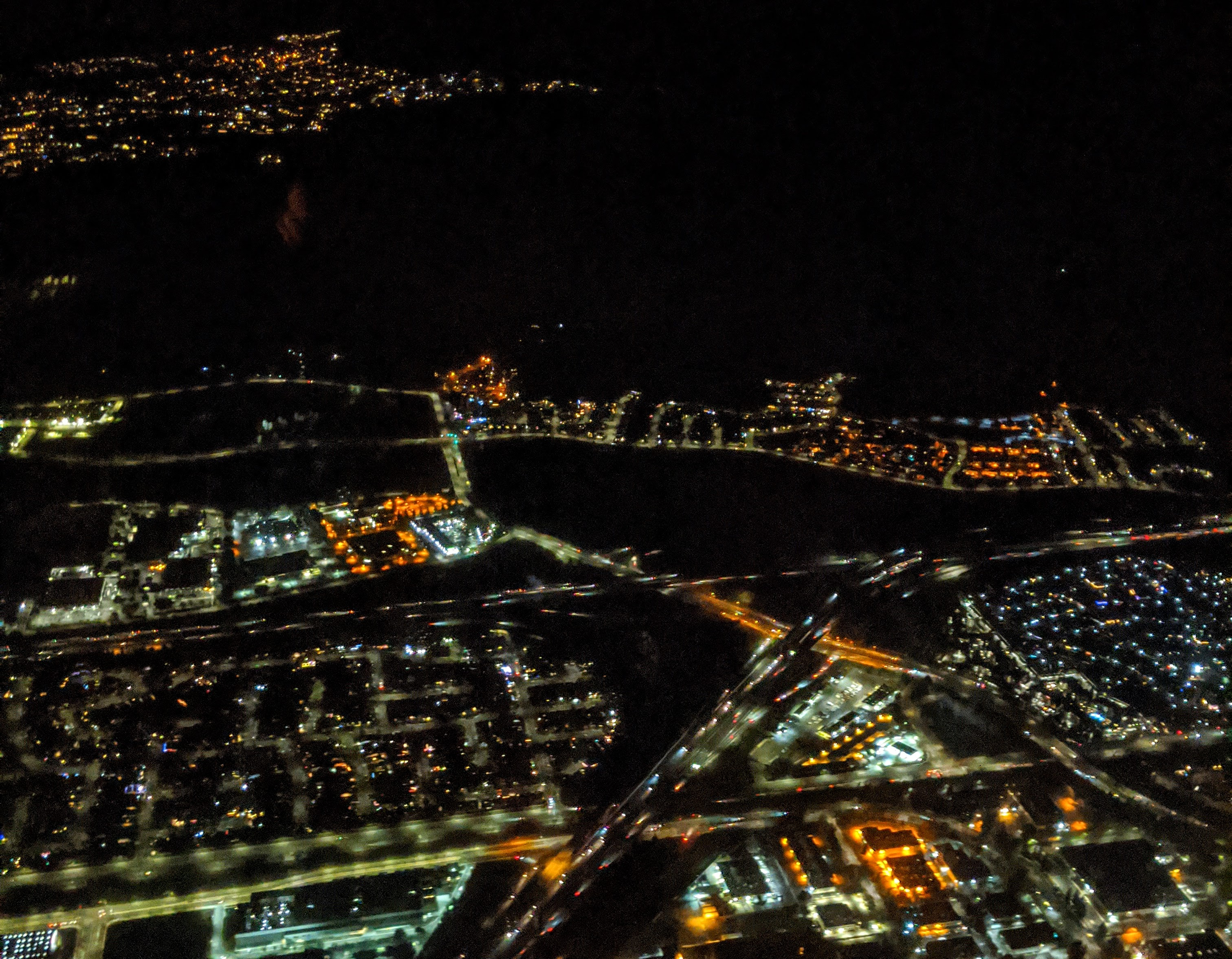 Night aerial view of the interchange at US 85 and US 101, with Bernal Road crossing, and with Monterey Road in the foreground, in San Jose, California, 2019